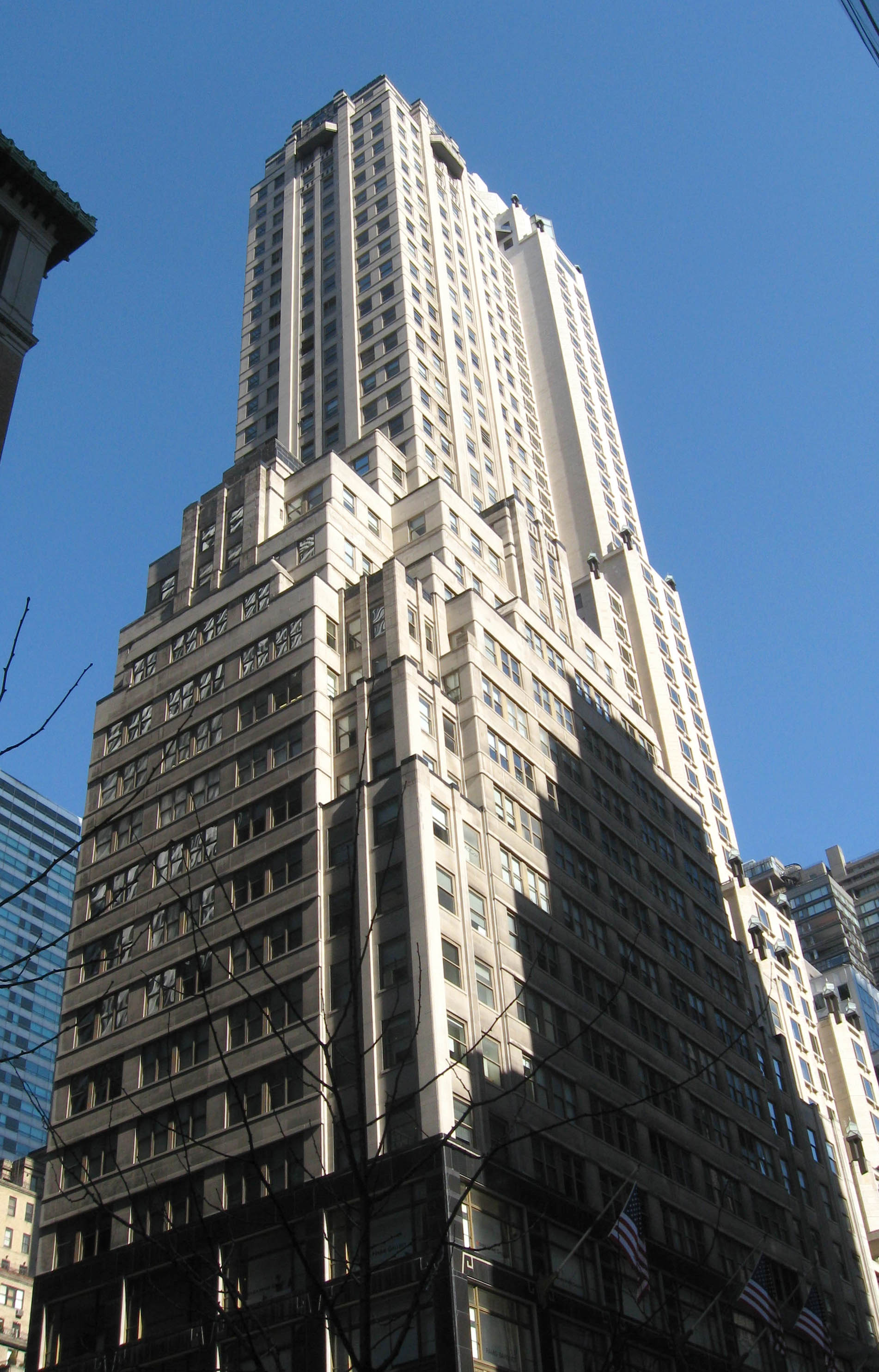 Looking east across 57th Street and Madison Avenue at Fuller Building on a sunny early afternoon. NYCLPC designated 1986.